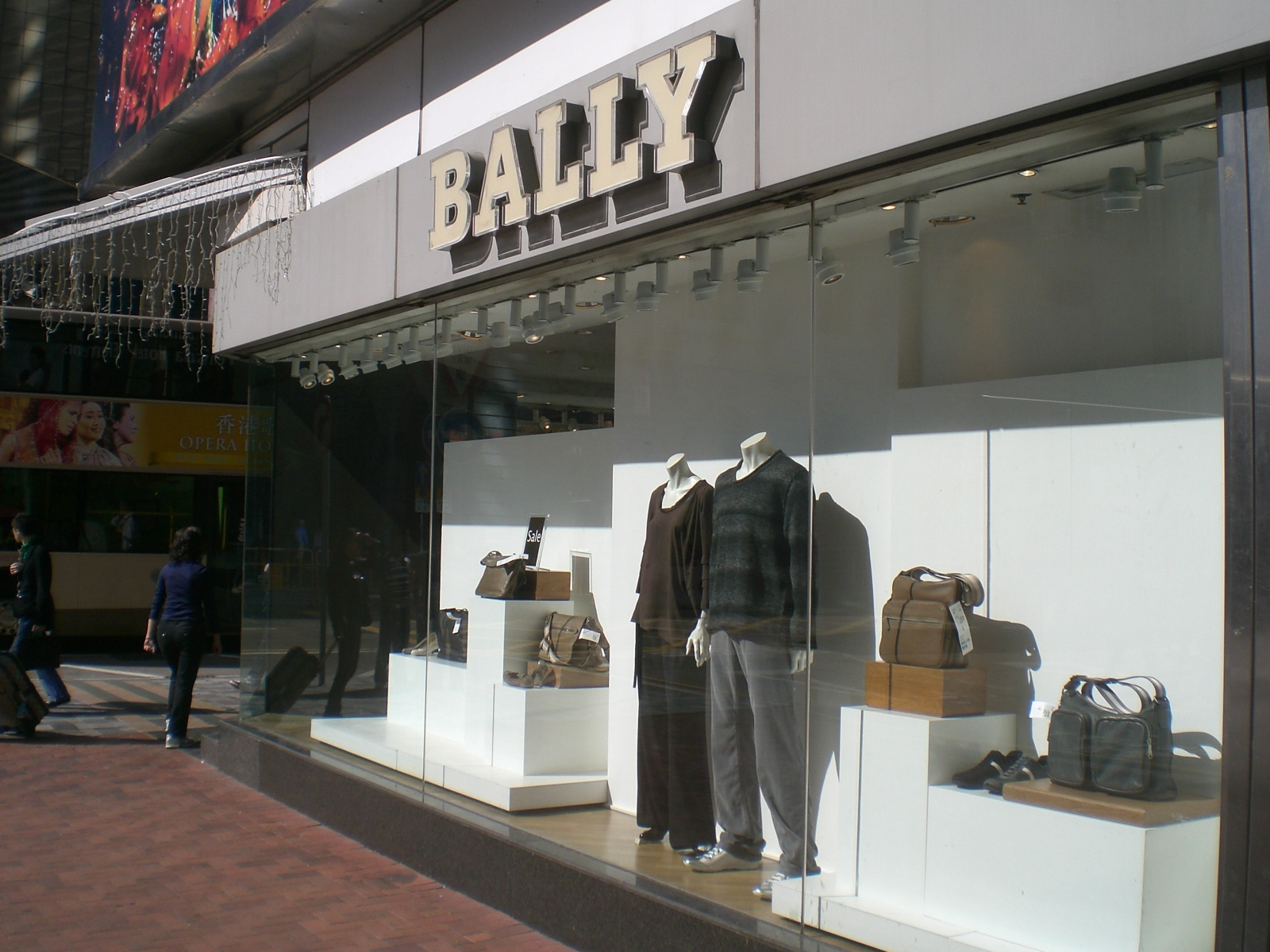 Bally Shoe